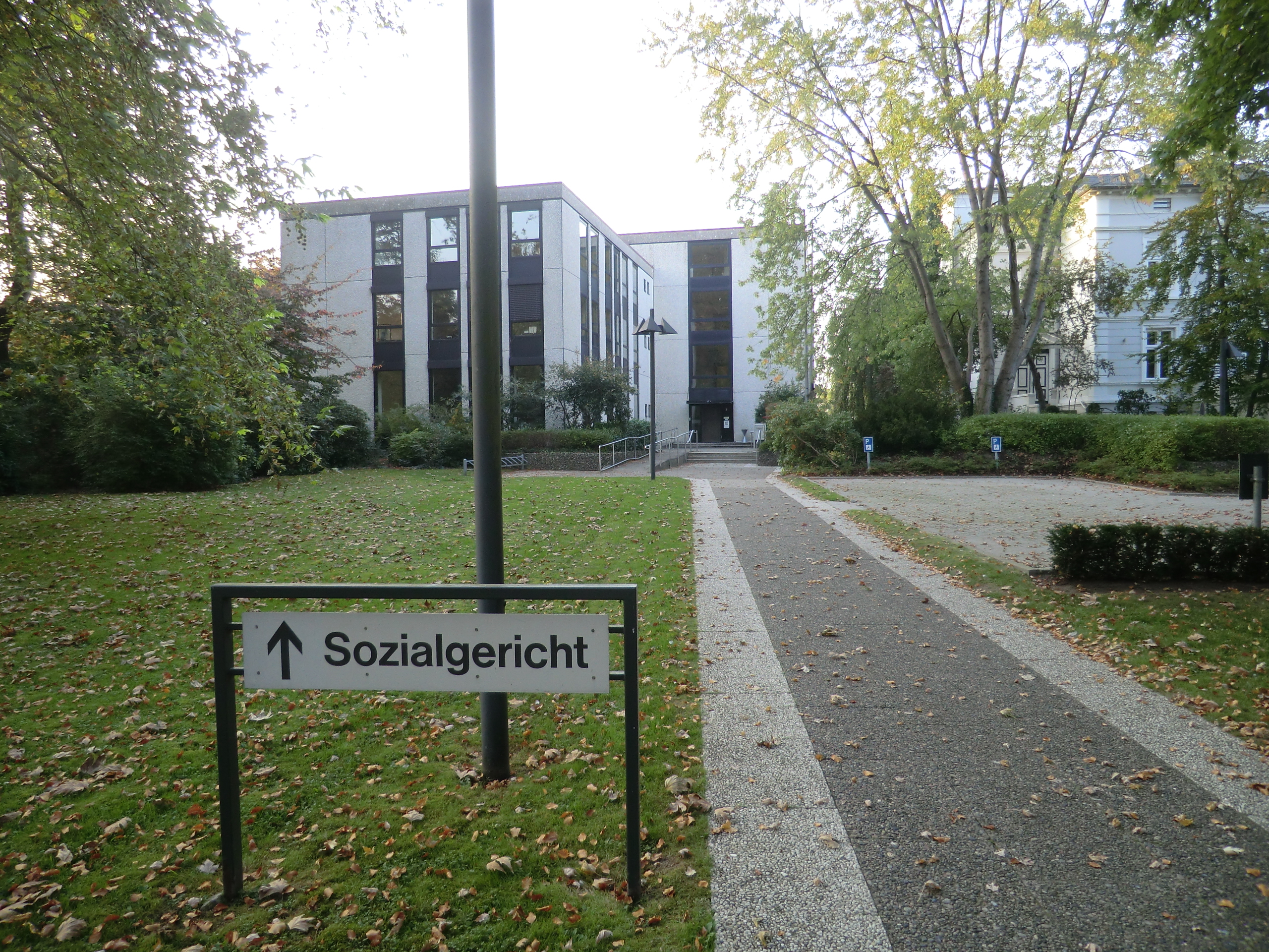 Photo of the Sozialgericht Lübeck